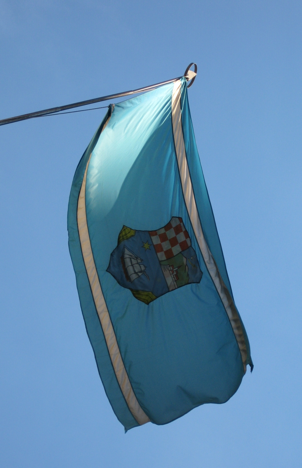 Flag of Primorje-Gorski Kotar County on the County's building in Rijeka